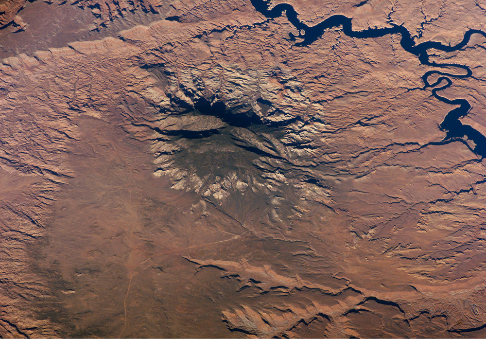 Astronaut's satellite photo of Navajo Mountain and environs. Located in southeast Utah (left-south slope in Arizona). San Juan River goosenecks in upper right, Lake Powell at top. In the physiographic Canyon Lands Section.